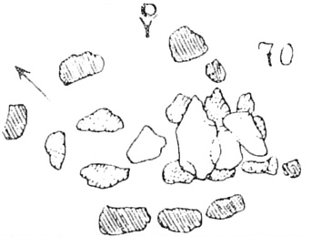 Outline of the dolmen Diesdorf 1, Saxony-Anhalt